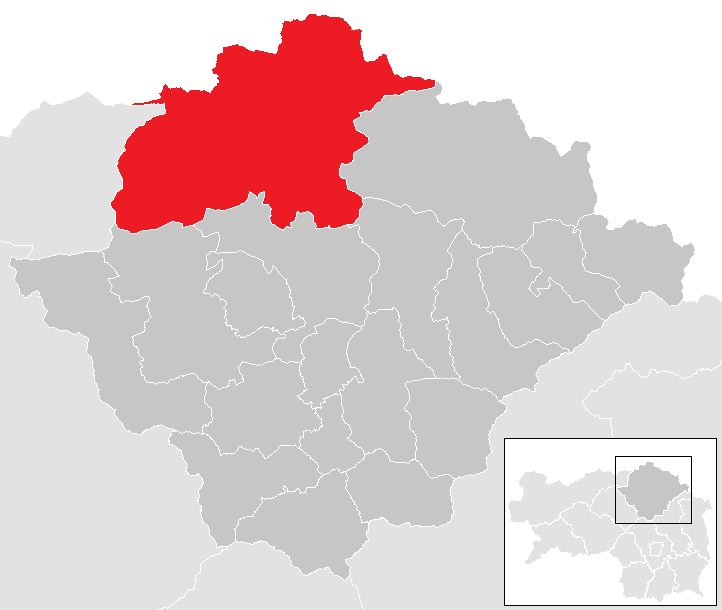 district Bruck-Mürzzuschlag